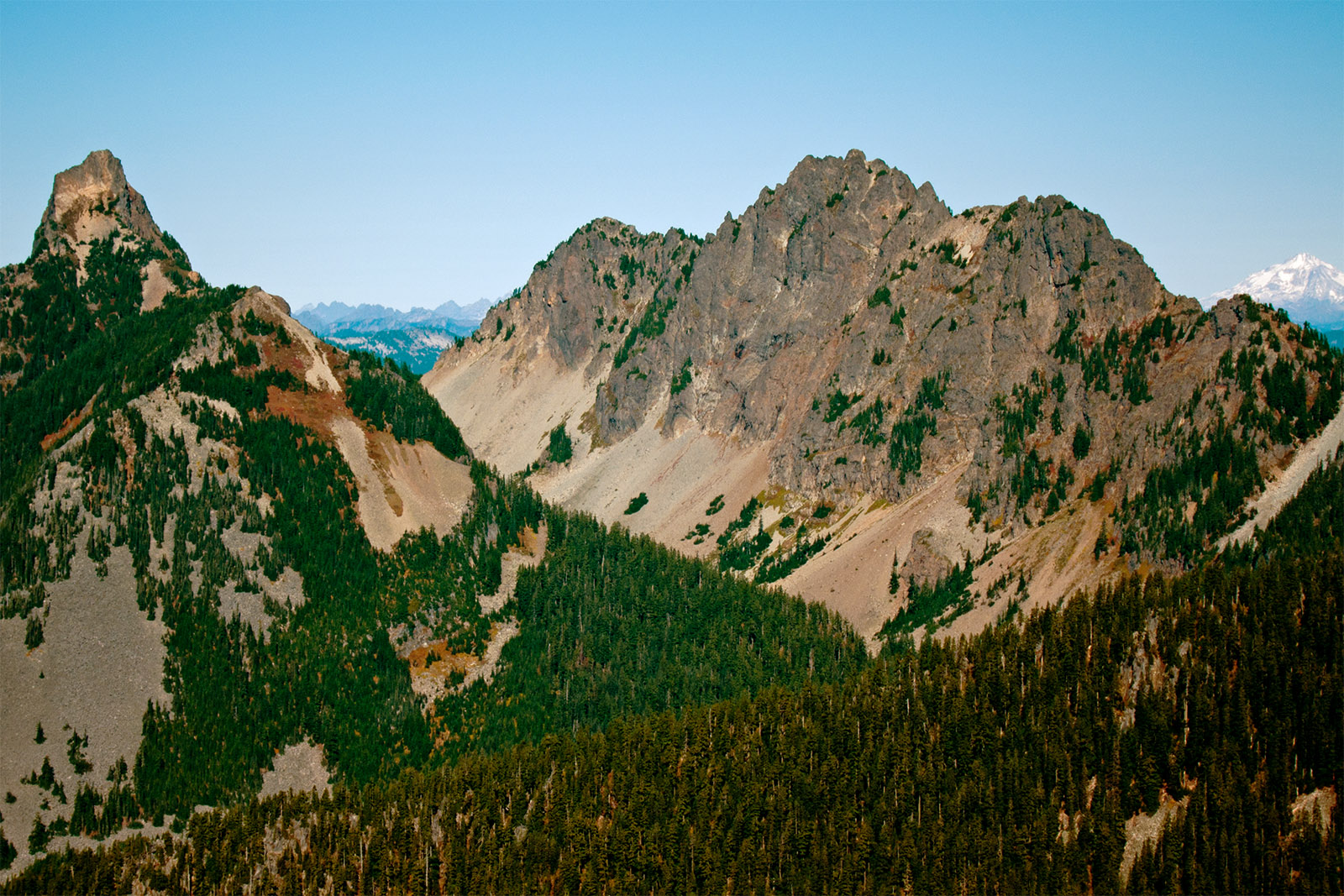 The view of Chair Peak and Kaleetan Peak (left) from Granite Mountain